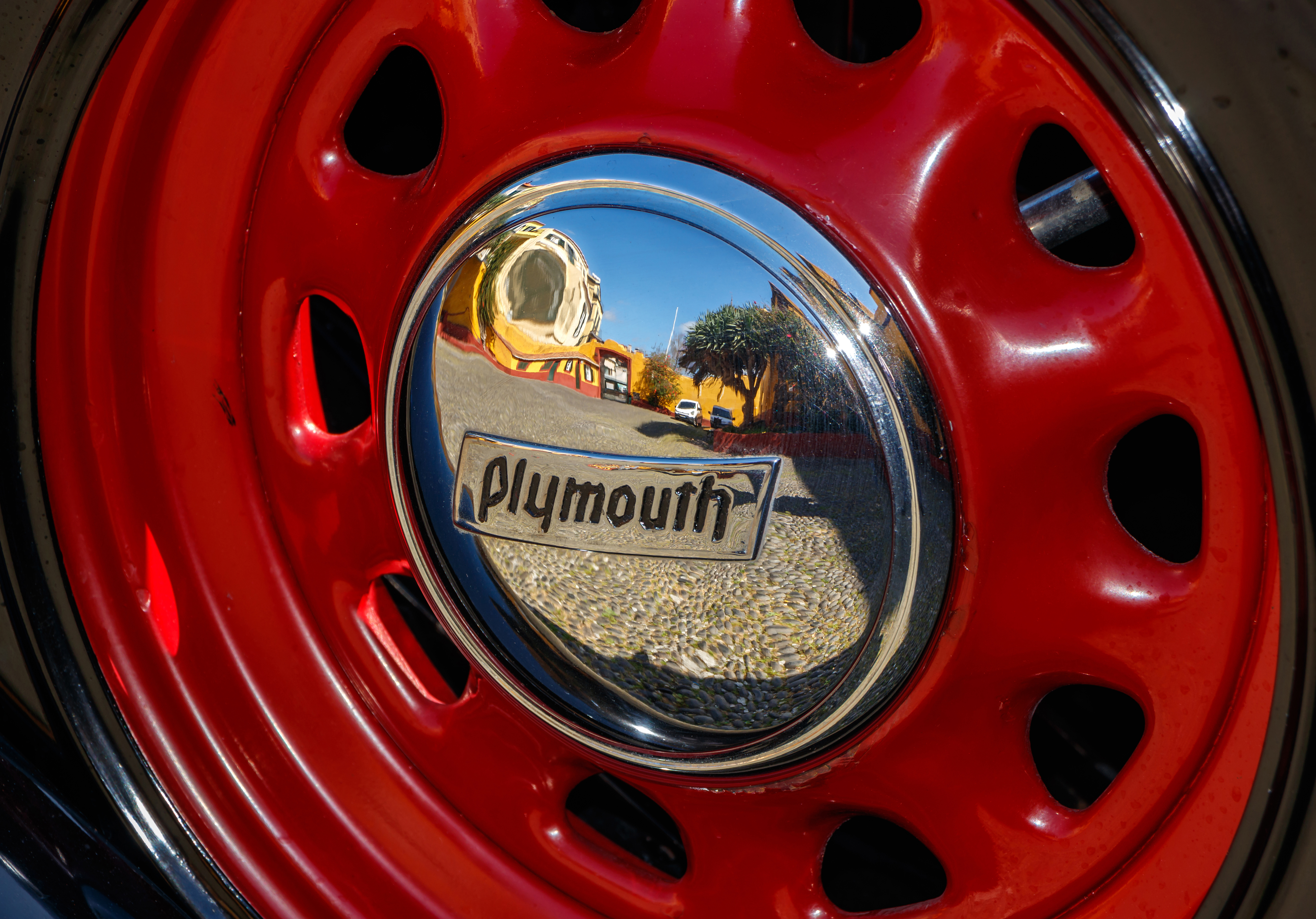 Hubcap of a Plymouth PE (1934), Forte de São Tiago, Funchal, Madeira, Portugal